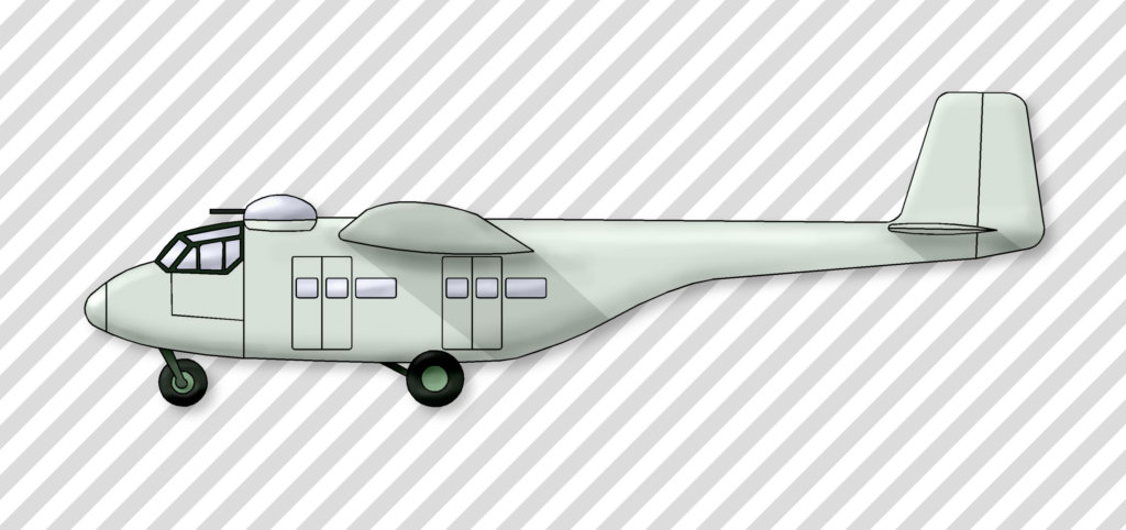 sketch of a Gotha Ka 430